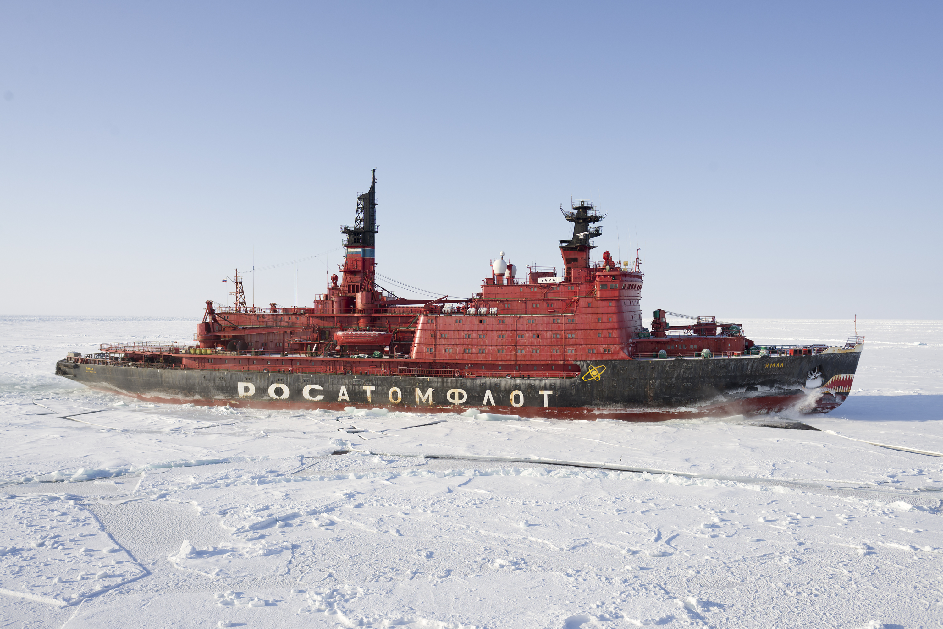 Nuclear-powered icebreaker Yamal in the Kara Sea